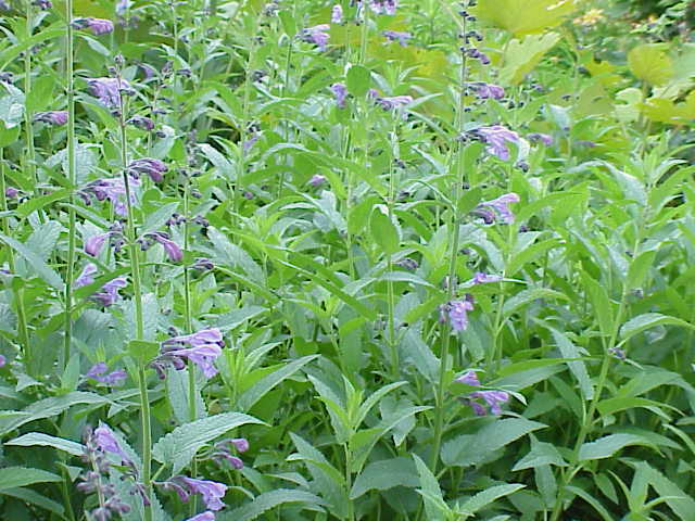 Species: Nepeta sibirica Family: Lamiaceae Image No. 7